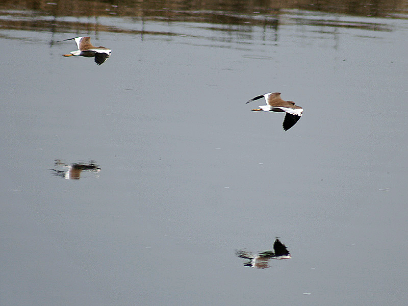 White-tailed Lapwing Vanellus leucurus at Hodal in Faridabad District of Haryana, India.